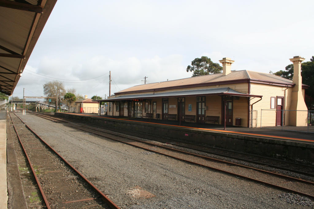 Colac railway station overview